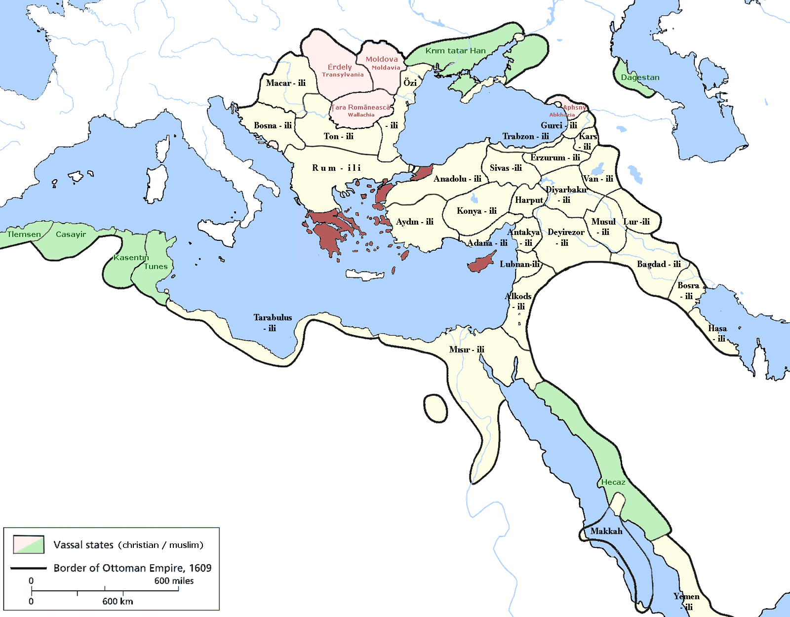 Archipelago Eyalet, Ottoman Empire (1609). Source: Encyclopedia of the Ottoman Empire at Google Books By Gábor Ágoston, Bruce Alan Masters